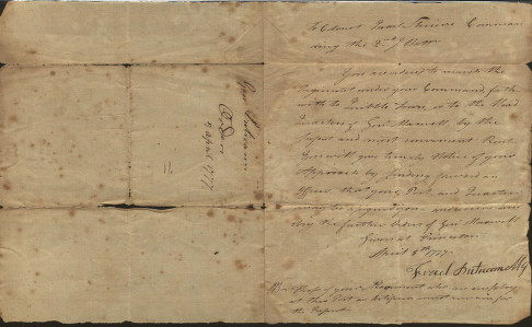 Correspondence from Major General Israel Putnam to Shreve on April 5, 1777. Sent from Princeton. Date April 5, 1777